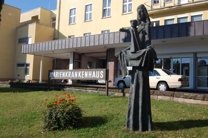 Entrance of the Marienkrankenhaus Kassel